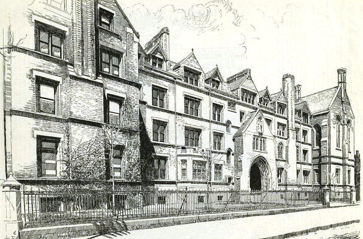 The Ninth Avenue entrance of the General Theological Seminary in 1890 Image Title: Ninth Ave. front of the General Theological Seminary, New York : deanery, Jarvis Hall, and library. Alternate Title: 9th Avenue front of the General Theological Seminary, New York. Published Date: 1890 Specific Material Type: Prints Item Physical Description: 1 print : b&w ; 18 x 25 cm. (7 1/4 x 9 3/4 in.) Notes: Written on border: "D. 6. 1890." Original Source: From Illustrated American. (New York : Lorillard Spencer, 1890-1900) . Source: Mid-Manhattan Picture Collection / New York City -- colleges & universities Source Description: 1 folder (30 pictures) Location: Mid-Manhattan Library / Picture Collection Catalog Call Number: PC NEW YC-Coll Digital ID: 801212 Record ID: 690489 Digital Item Published: 10-28-2005; updated 8-10-2010